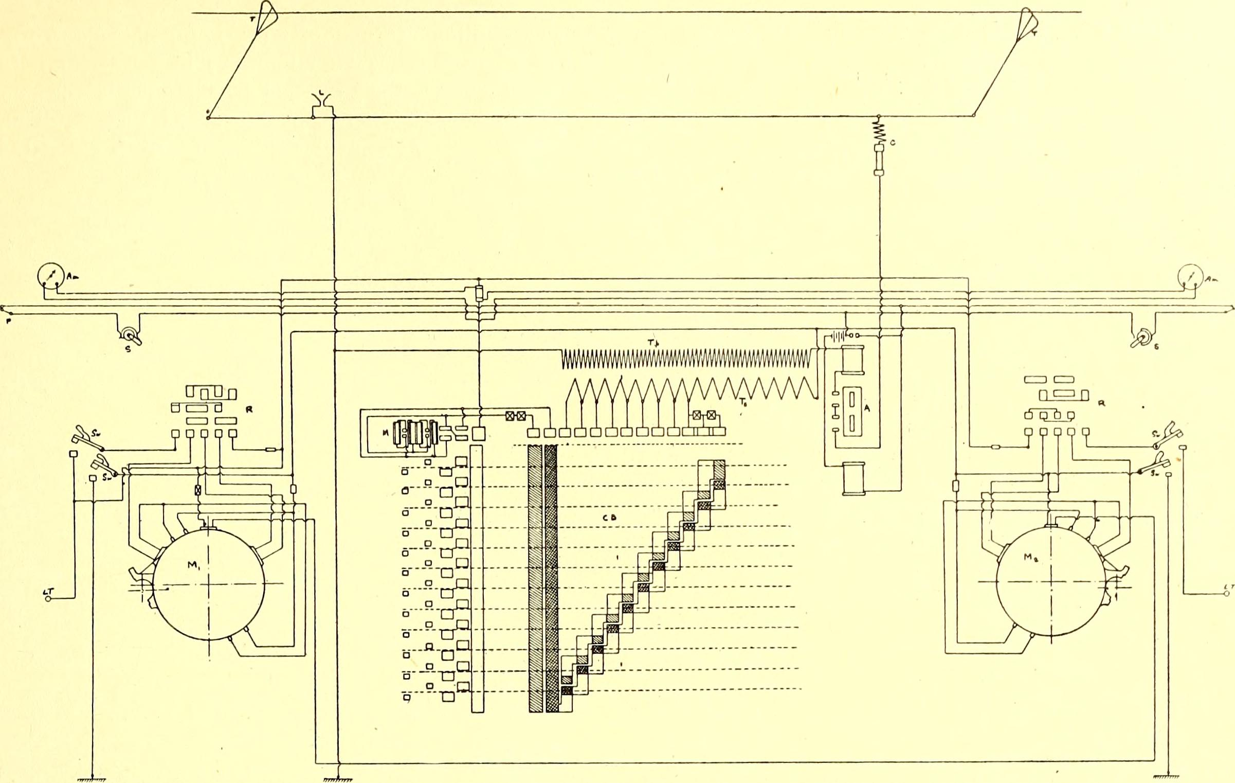 Identifier: streetrailwayj251905newy Title: The Street railway journal Year: 1884 (1880s) Authors: Subjects: Street-railroads Electric railroads Transportation Publisher: New York : McGraw Pub. Co. Text Appearing Before Image: VIEW OF POWER STATION, SHOWING GENERATORS AND SWITCHBOARD center position is for taking the cars into the car shed, wherea special low-tension overhead trolley line is provided. Forthis purpose, when the cars arrive at this point the switchesSzv are closed and the low-tension trolleys LT are put intooperation. The transformer reduces from 5000 volts to 260volts, and the barrel controller switches this voltage step bystep on to the motors. Aprii, I, 1905.] STREET RAILWAY JOURNAf, 593 Text Appearing After Image: ARRANGEMENT OF WIRING CIRCUITS ON CARS FOR THE M URNAU- BER-AMMERGAU SINGLE-PHASE RAILWAY Each car is provided with two 80-hp motors, which aregeared to the two end axles of the coach through single reduc-tion gears with a ratio of i to 5.2, the running wheels having adiameter of 800 mm (^lyz ins.). These motors enable the carto maintain a normal full speed of 40 km per hour when run-ning either by itself or with a trailer. The two motors arealways in parallel; they are of the lo-pole single-phase com-mutator type, and are built to a design which includes specialwindings for reducing the sparking. It is claimed that thisarrangement has been so successful that the sparking at thecommutator is practically nil over a very wide range of speed.This type of motor can also be arranged for running with con-tinuous current if necessary. The cars have been tested on the steepest grade (i in 25), and they started with a gross load of50 tons without any trouble whatever. The complete electrical